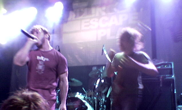 Dillinger Escape Plan on 28 March 2005 at Eindhoven